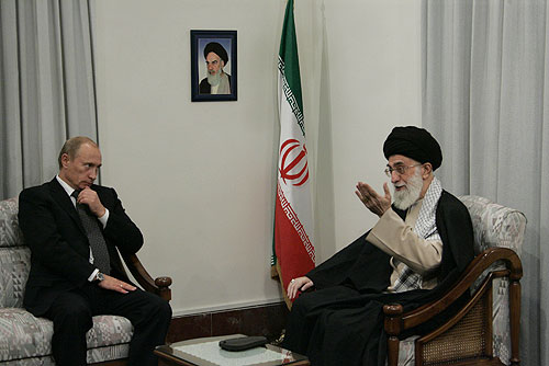 TEHRAN. With Ayatollah Sayed Ali Khamenei.